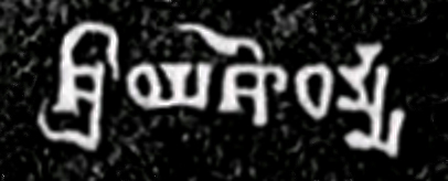 Sri Yashodharman